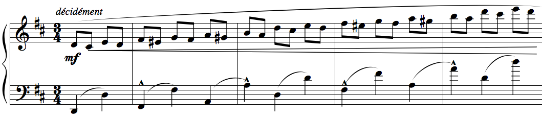 20 ans, the first movement from Grande sonate 'Les quatre âges', composed by Charles-Valentin Alkan